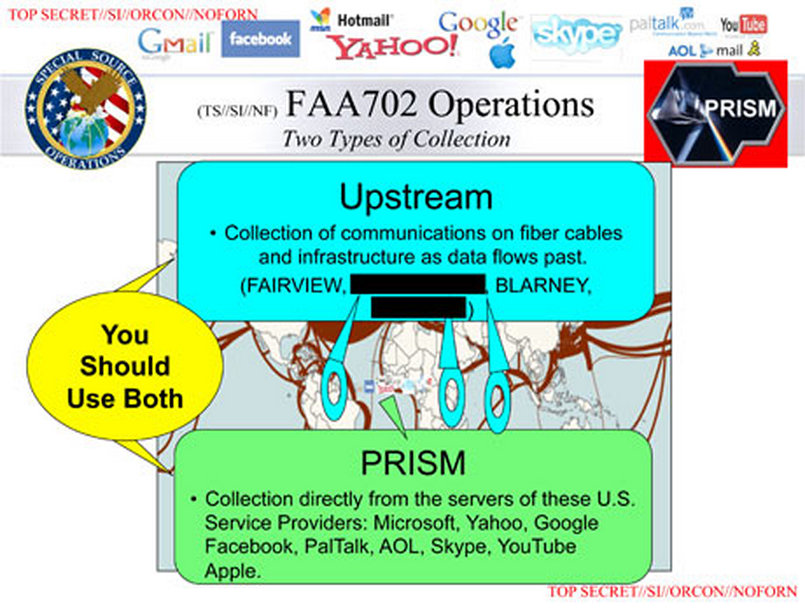 Slide from the NSA's PRISM surveillance program presentation showing two different sources of data collection. One program called Upstream that collects directly from the fiber optic cables carrying data on the Internet, and the second program called PRISM which collects data from the servers of the big companies of the Internet such as Microsoft, Skype, Google, Apple, Yahoo!, etc.